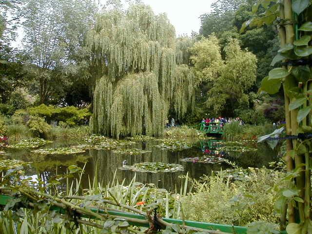 Lily pond in Monet's garden at Giverny. Original photo by Spircle. Taken 5.8.01.